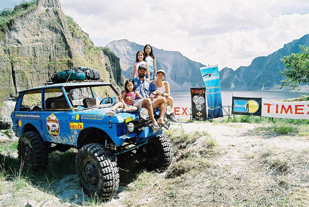 Dale Abenojar's family on top of a Range Rover at the crater rim of Mt. Pinatubo, Philippines